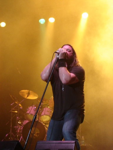 Symphony X singer, Russell Allen in the middle of a concert in San Juan, Puerto Rico